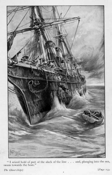 Illustration from a novel The Ghost Ship by John Conroy Hutcheson